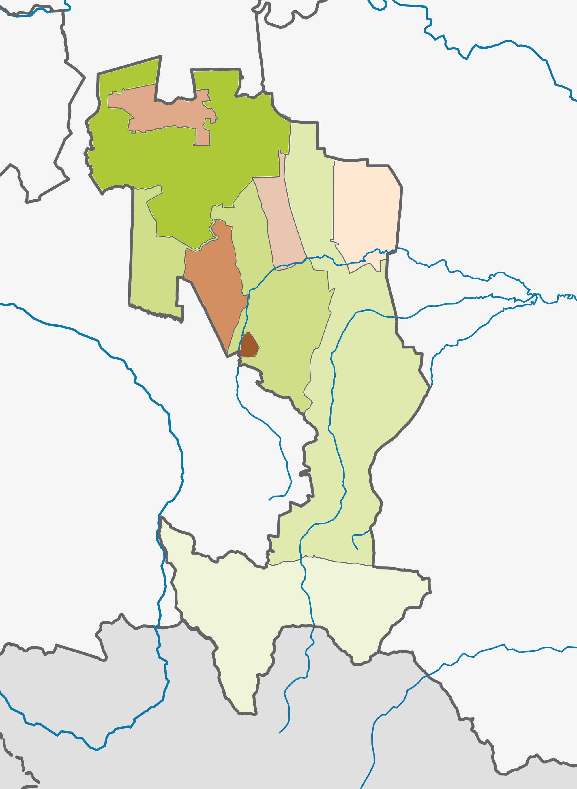 Administrative Map Ingusheii